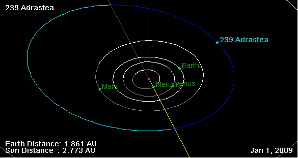 239 Adrastea orbit, and his position on 01 Jan 2009 (NASA Orbit Viewer applet)